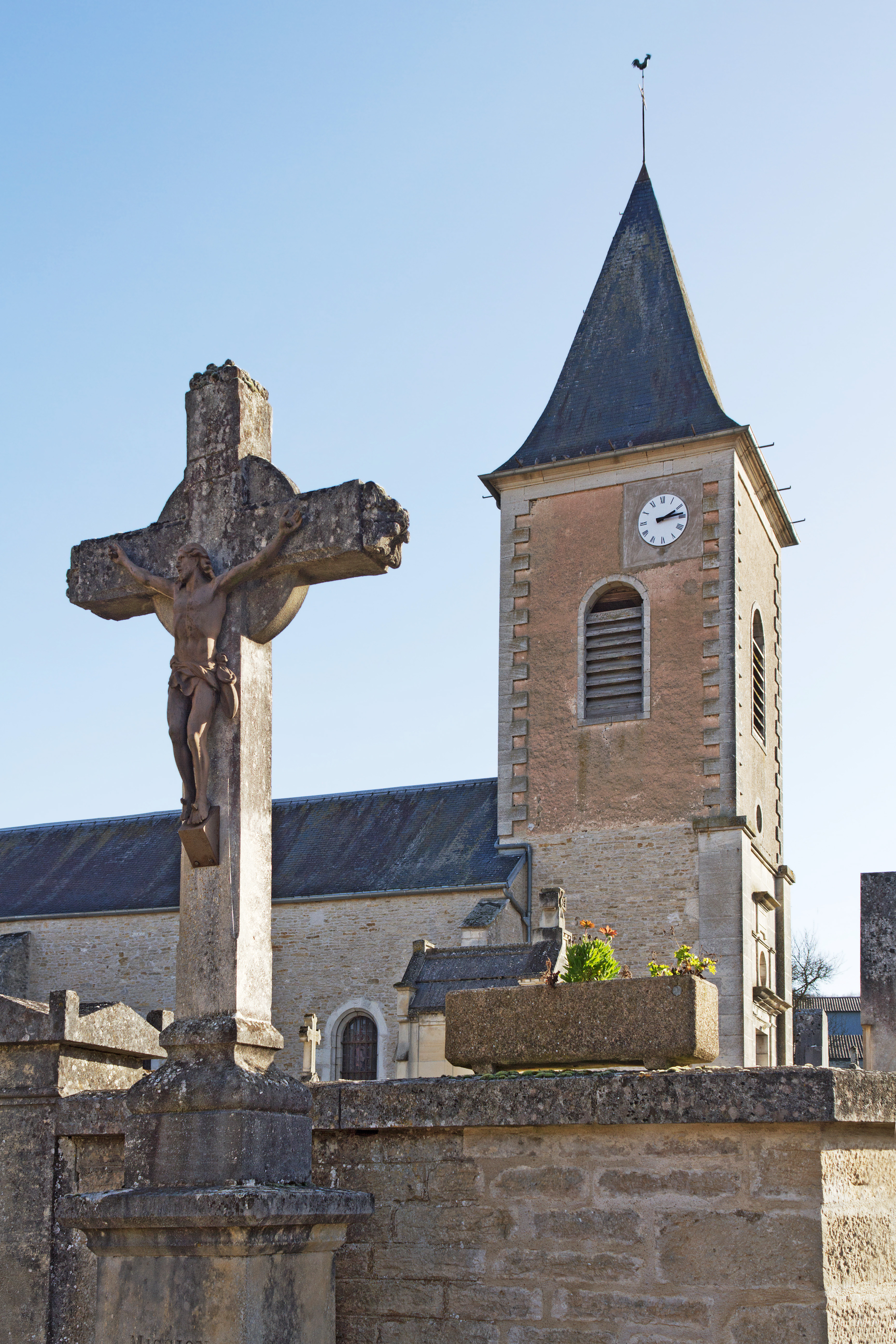 Church and wayside cross in Villecomte